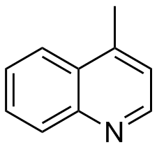 Structure of lepidine